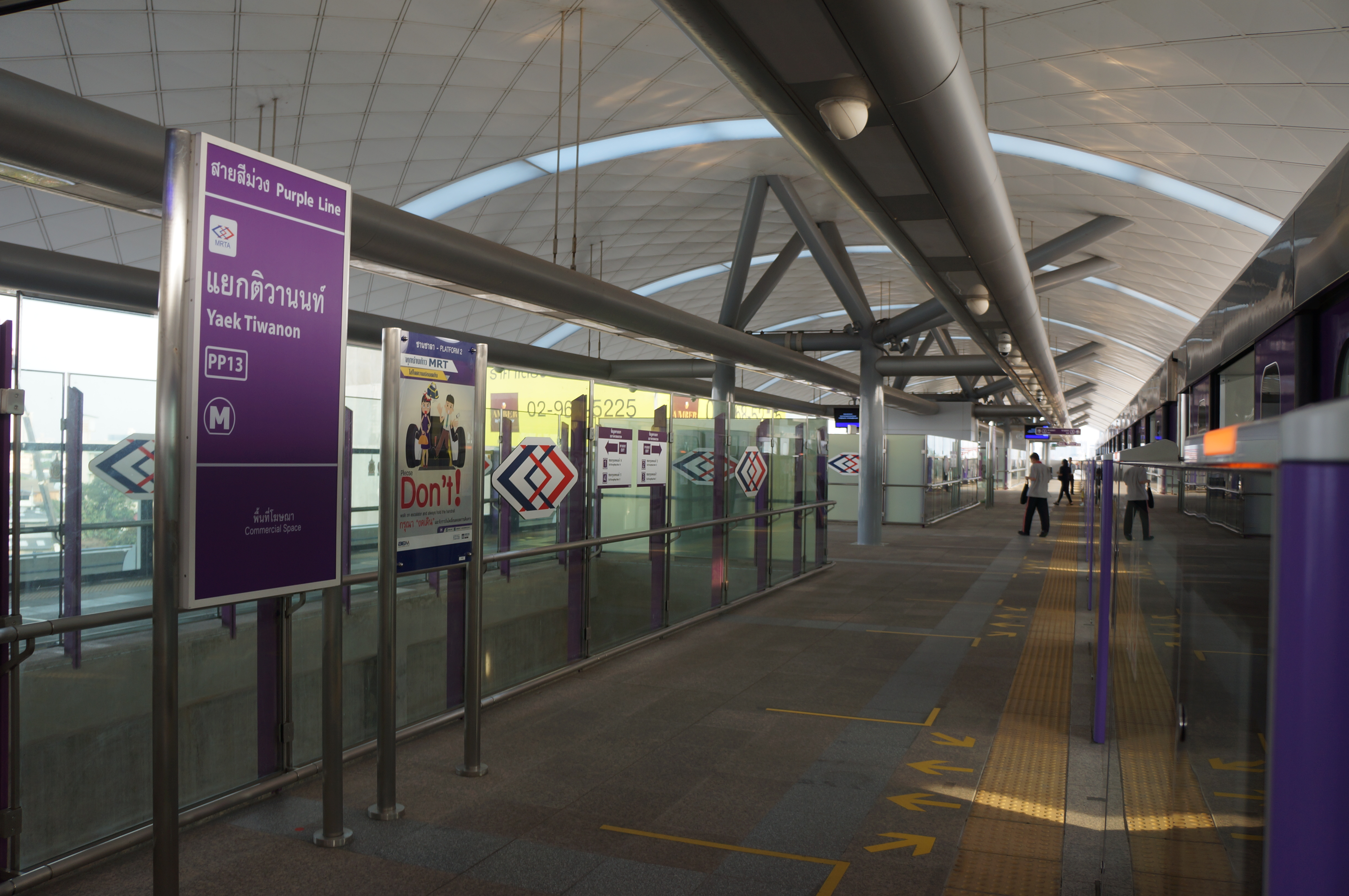 201701 Yaek Tiwanon Station. What is the meaning of Yaek in Thai? Obviously it does not mean "station" as it in Korean.